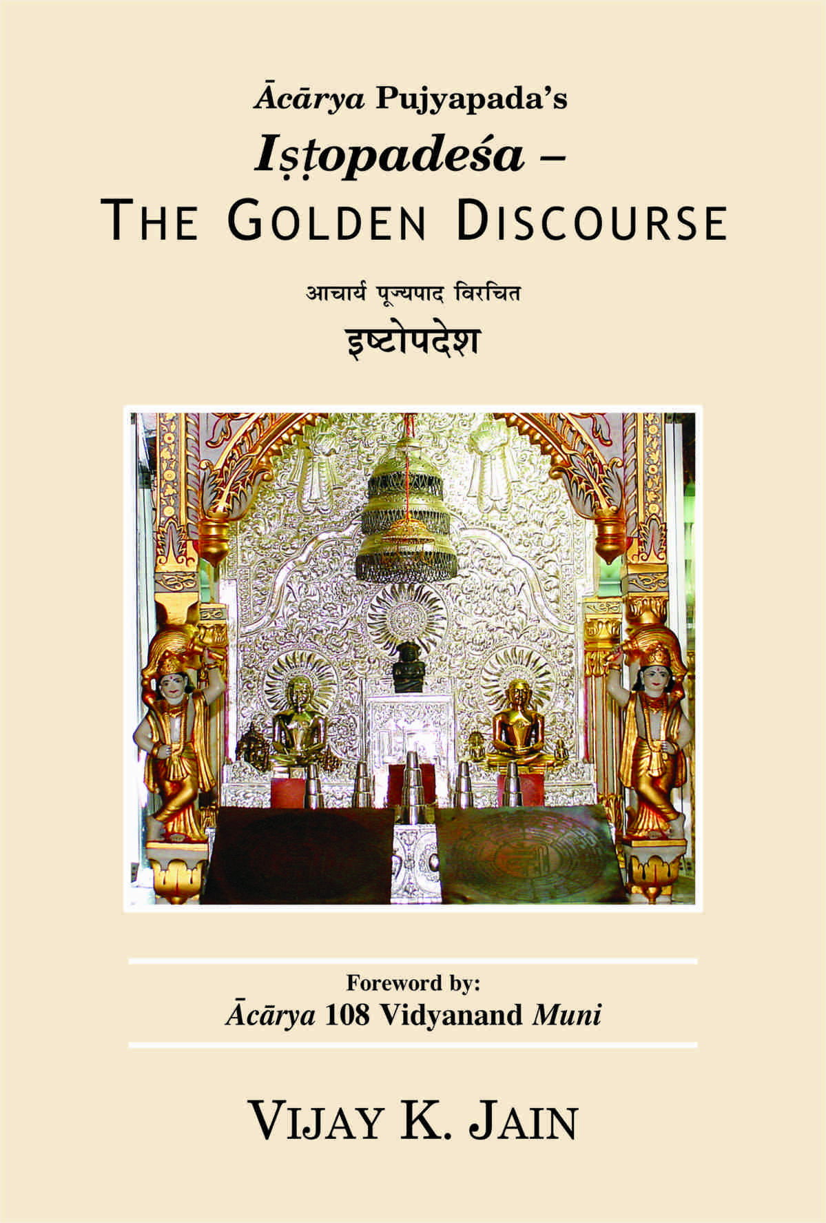 Book cover of English and Hindi translation of the Jain text, Iṣṭopadeśa. Book is non-copyright and released under public domain by the author.